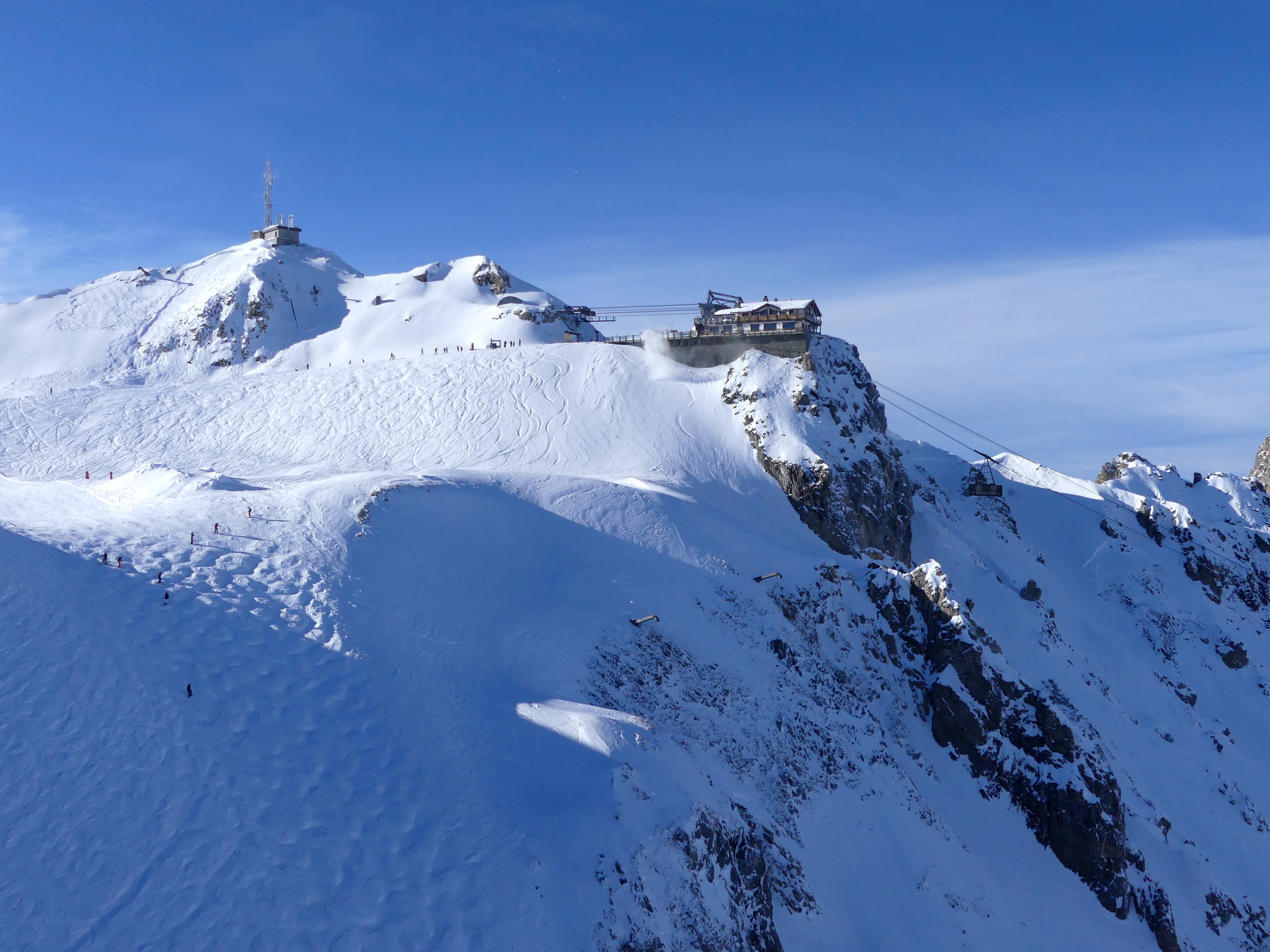 Sight, in winter, of La Saulire mountain (2,738 meters high) and the lifts of Courchevel ski resort, in Savoie, France.